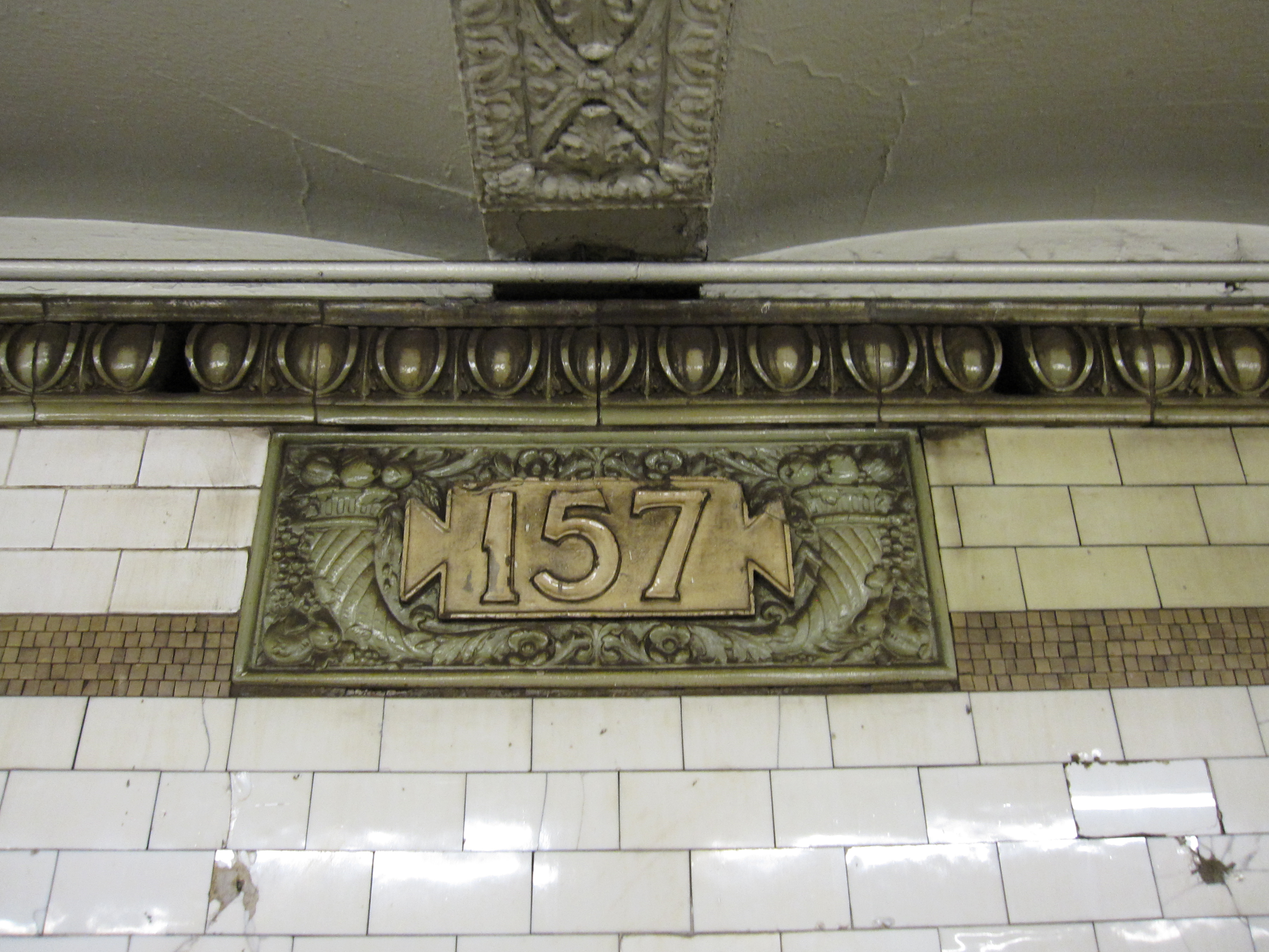 157th Street (IRT Broadway – Seventh Avenue Line)